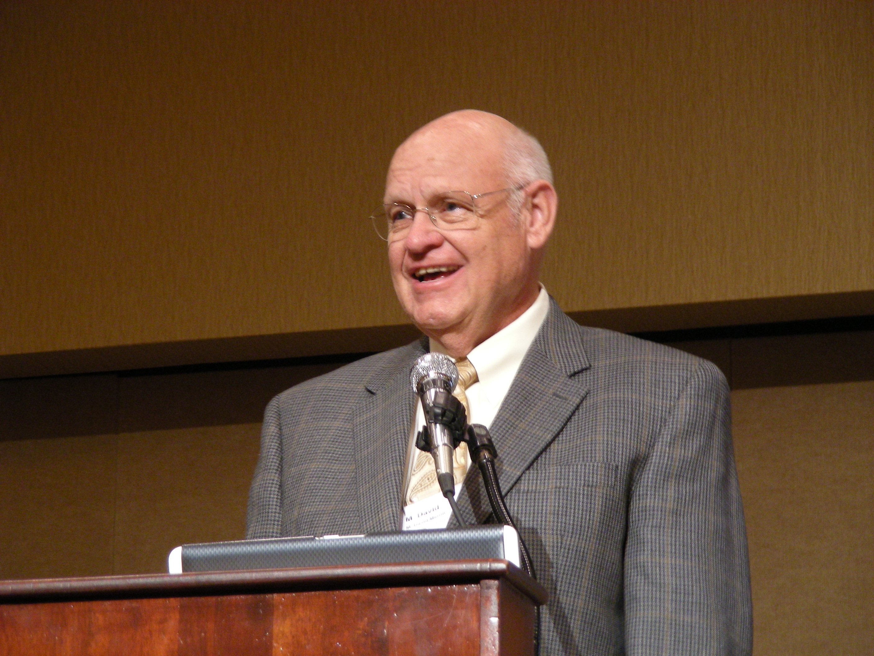 Keynote speaker M. David Merrill talked about "What makes e3 (effective, efficient, engaging) instruction?" at ED-MEDIA 2009 in Honolulu. by Kristina D.C. Hoeppner